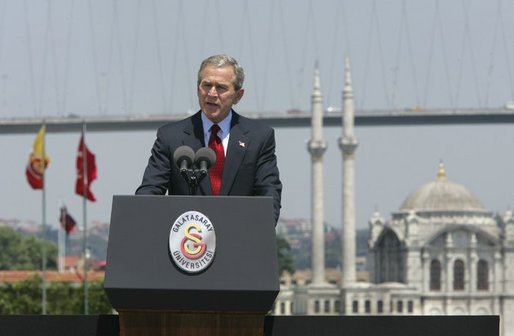 U.S. President George W. Bush delivers remarks at Galatasaray University in Istanbul, Turkey.